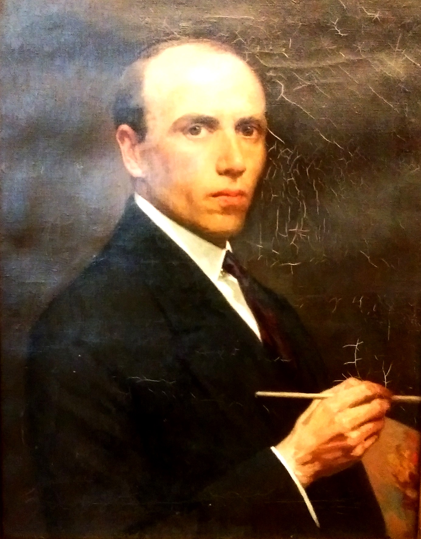 Dimo Sotiroff self portrait